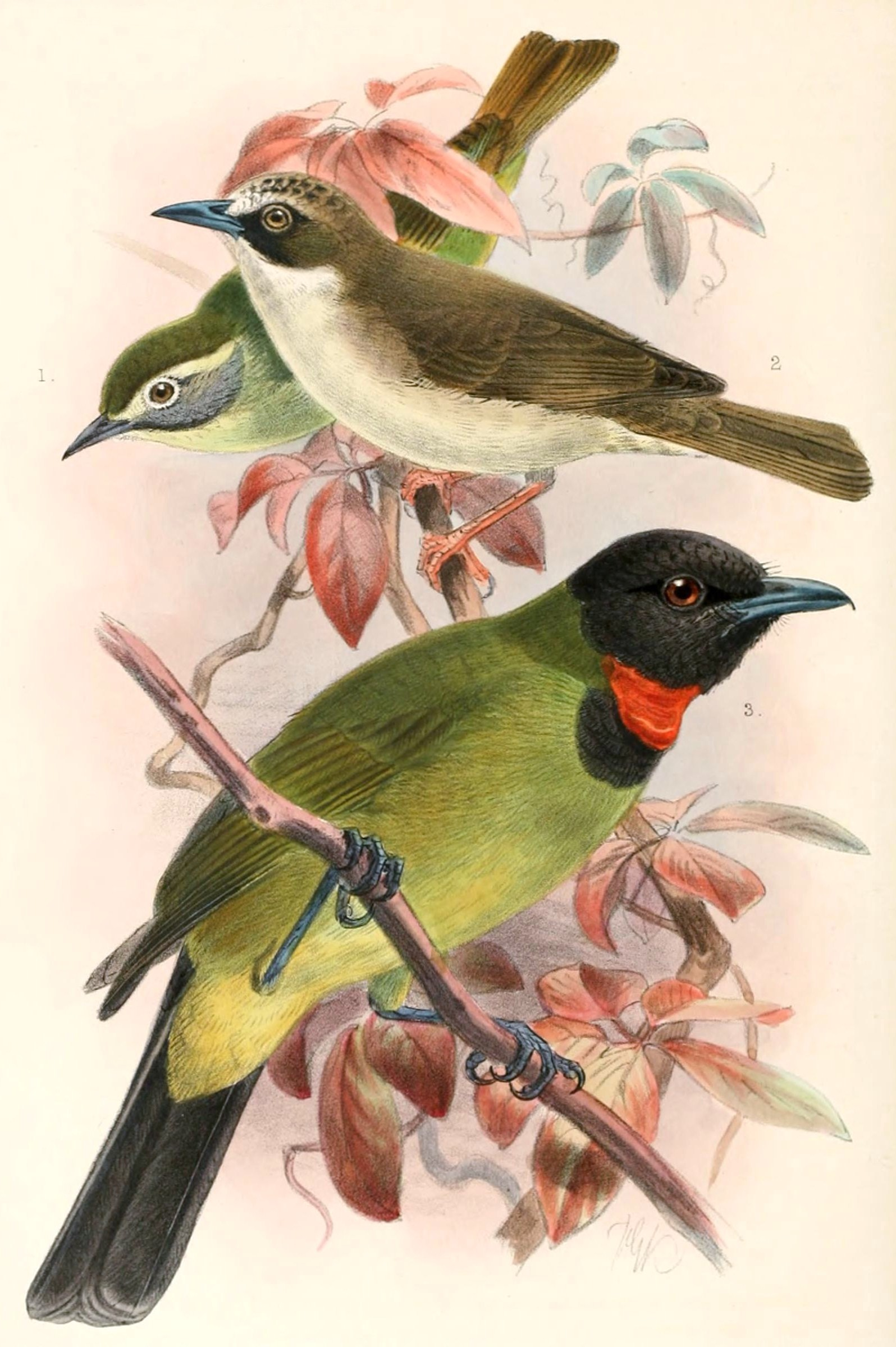 « Zosterops superciliaris » = Lophozosterops superciliaris (Cream-browed Ibon) « Zosterops crassirostris » = Heleia crassirostris (Thick-billed Heleia) « Pachycephala nudigula » = Pachycephala nudigula (Bare-throated Whistler)